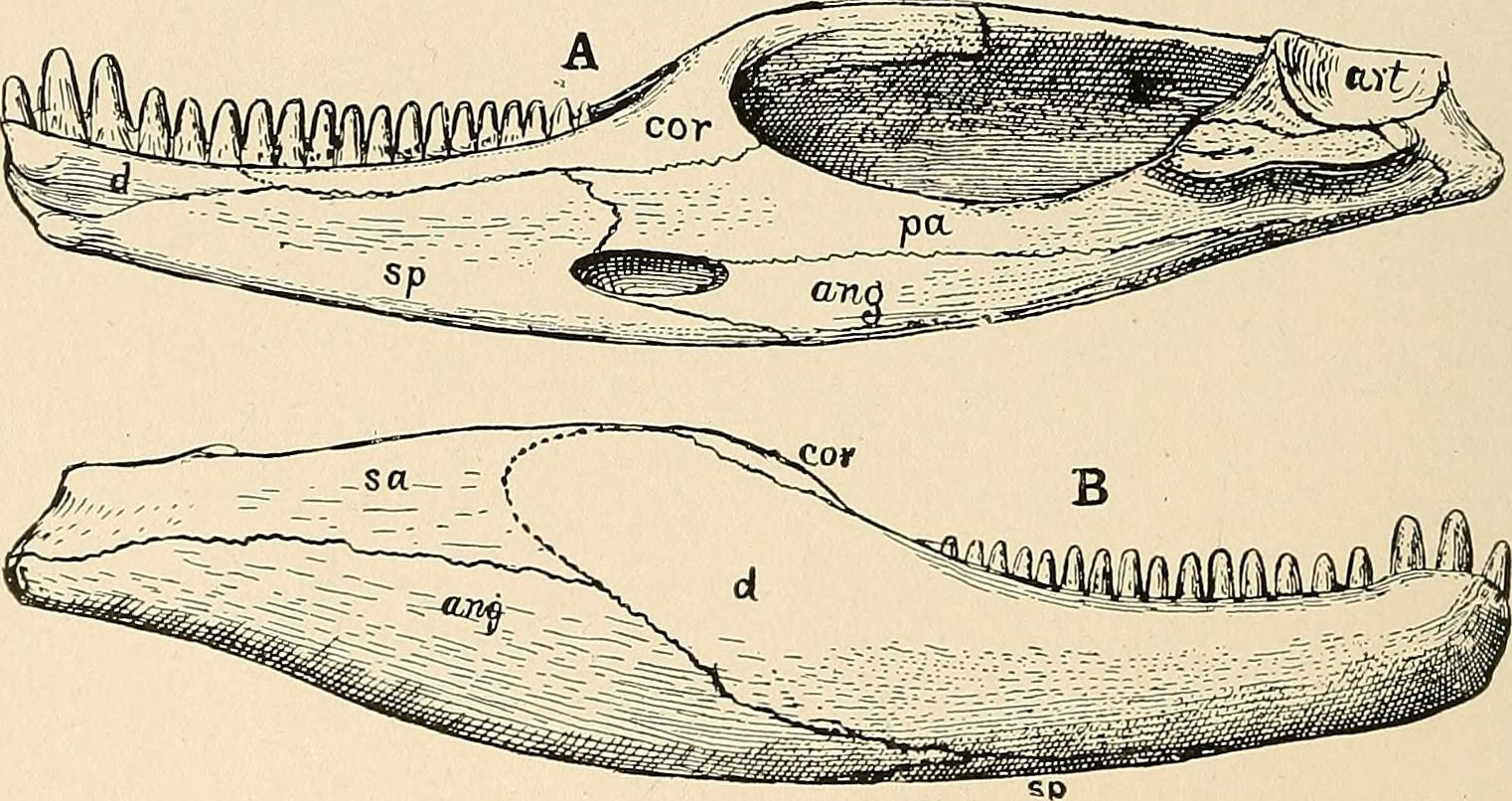 Identifier: waterreptilesofp1914will Title: Water reptiles of the past and present Year: 1914 (1910s) Authors: Williston, Samuel Wendell, 1851-1918 Subjects: Aquatic reptiles Publisher: Chicago, Ill., The University of Chicago Press Text Appearing Before Image: Fig. 9.—Mandible of Trimerorhachis, a stegocephalian amphibian, ancestrallyrelated to the reptiles: A from within; B from without. The coronoid is composedof three bones, the true coronoid (cor), the intercoronoid (icor), and the precoronoid(Pc). The splenial is composed of two, the true splenial (sp) and the postsplenial(psp). The prearticular (pa) is broad, the dentary (d) is small; and the angular (an)is only slightly visible on the inner side. Text Appearing After Image: Fig. 10.—Mandible of Labidosaurus, a cotylosaur reptile: A from within; B fromwithout. The coronoid (cor) is a single bone, but extends far forward. The splenial(sp) is also a single bone, replacing the two of the amphibians. The prearticular (pa)is narrower, and the angular (ang) appears broadly on the inner side. The dentary (d)is much larger and the surangular (sa) is distinct. The articular (art) is small. THE SKELETON OF REPTILES 27